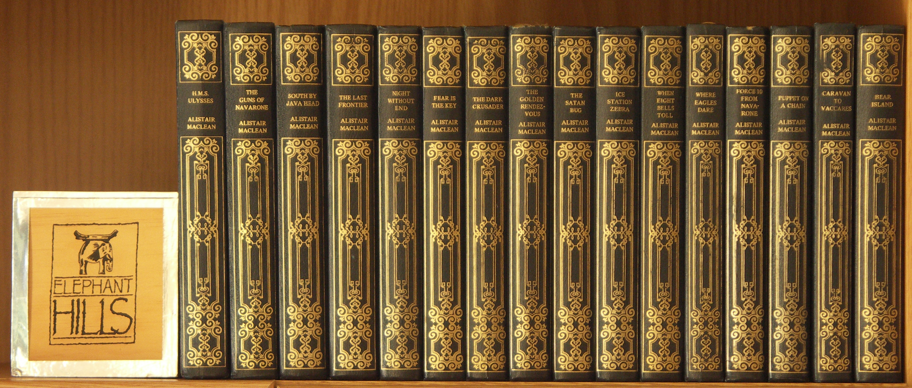 A collection of Alistair MacLean novels distributed by Heron Books in the mid 1970's